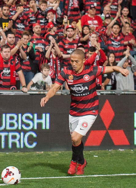 Shinji Ono takes a corner in the Round 4 game against Adelaide United 2013-2014 season